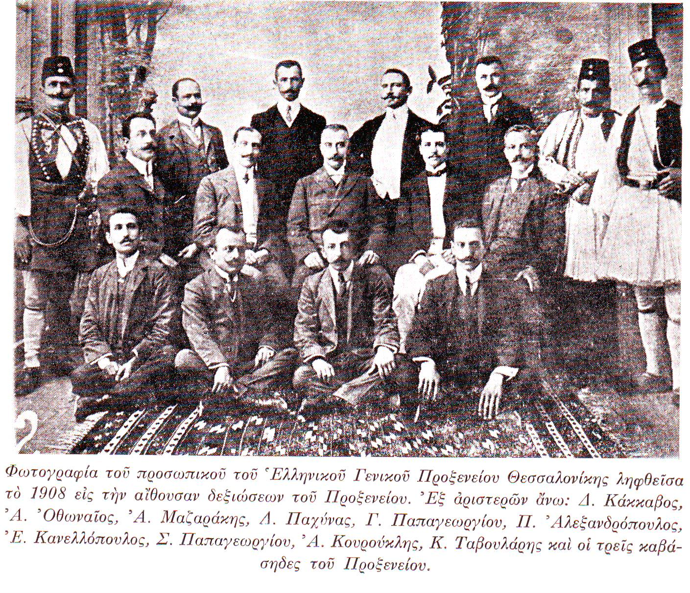 Greek Consulate in Thessaloniki